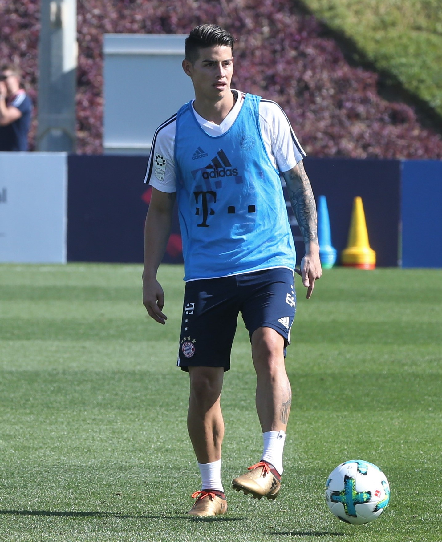 James rodriguez FC Bayern Munich practice in Doha ASPIRE zone